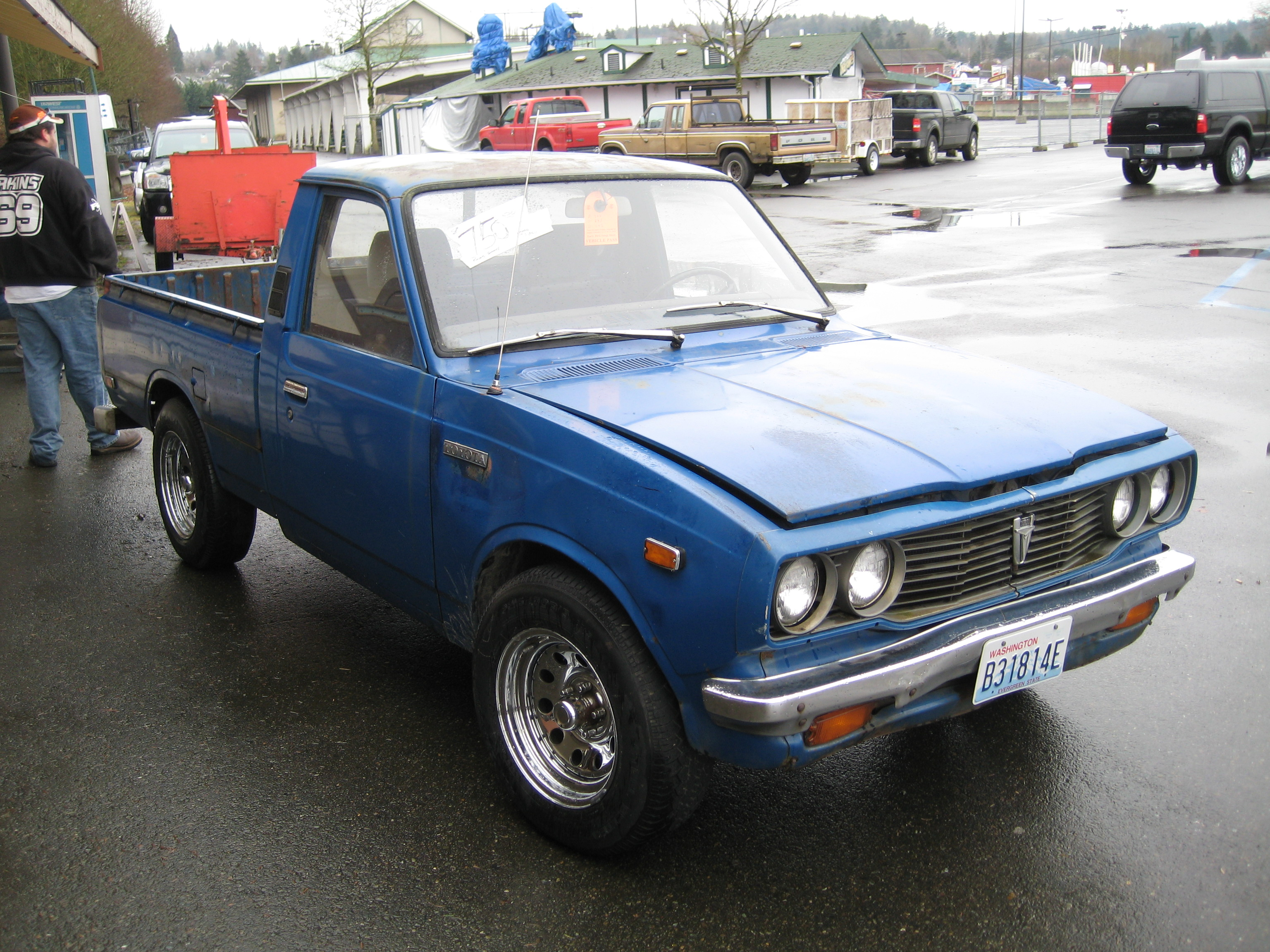 Early Bird Swap Meet and Car Show, Puyallup, Washington, February 2010.